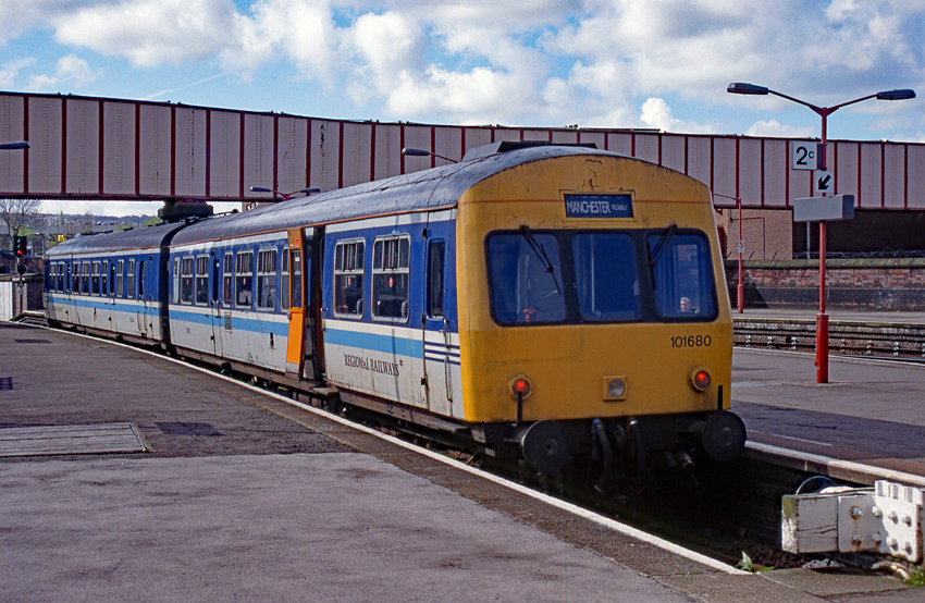 Regional Railways 101 680 at Sheffield in 1998 forming the service to Manchester Piccadilly. Consisting of vehicles 53204+53163. Scanned from a Fujichrome 35mm slide.